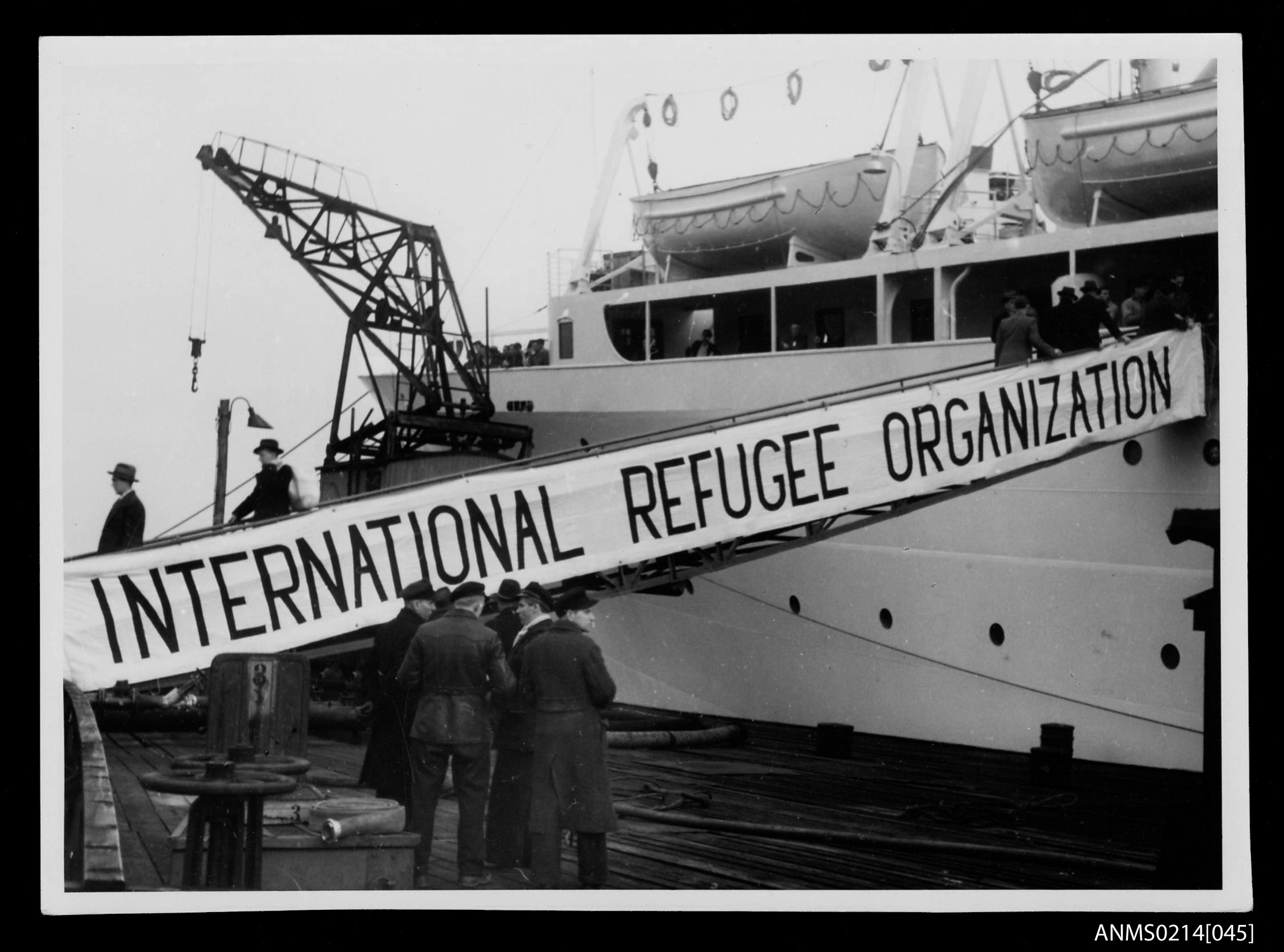 View of passenger ship, possibly MS SKAUBRYN, berthed at a wharf for migrants associated with the International Refugee Organization (which operated between 1947 and 1952). An inscriptions on the reverse reads: `Nordmark m nordmark film. Kiel. Tagersberg 5. Tel. 22534. Vervielfaltigungs = recht.' Nordmark-Film was a German film production company that produced a documentary on MS SKAUBRYN in 1951. The ANMM undertakes research and accepts public comments that enhance the information we hold about images in our collection. Object no. ANMS0214[045] The Australian National Maritime Museum will be holding an after-dark lightshow based on stories of migration from 26 January to 17 February 2013. Check the website for more information on 'Waves of Migration', and how you can tell share your migration story.